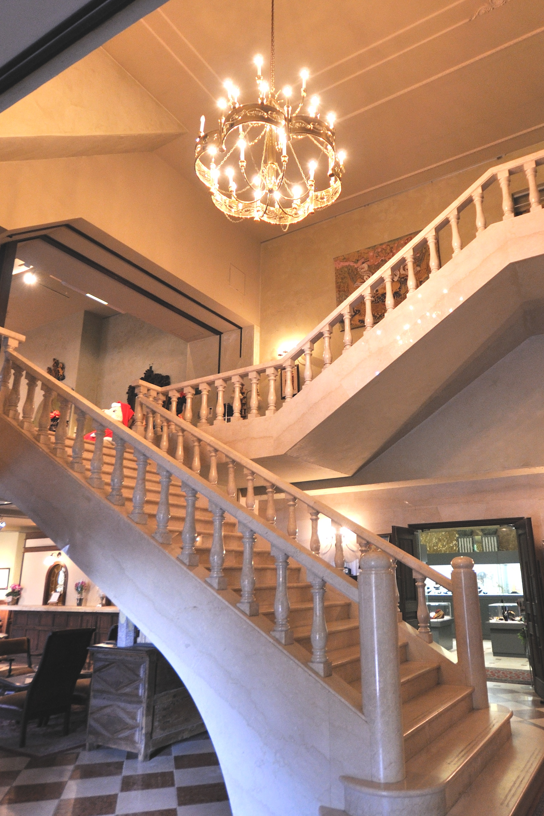 Photograph of Lockheart Castle interior, chandelier and stairs by amusement park "Marble Village Lockheart Castle" in Takayama Village, Gunma Prefecture, old name of this castle is "Milton Lockhart House", was constructed in Scotland of 1829, dismantled in 1987 and rebuild in Japan of 1993 as "Lockheart Castle", this photo taken in December 26, 2009.